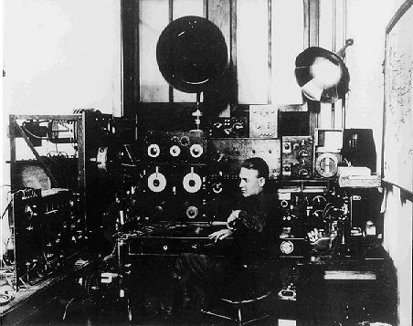 W.A. Tolson by John West